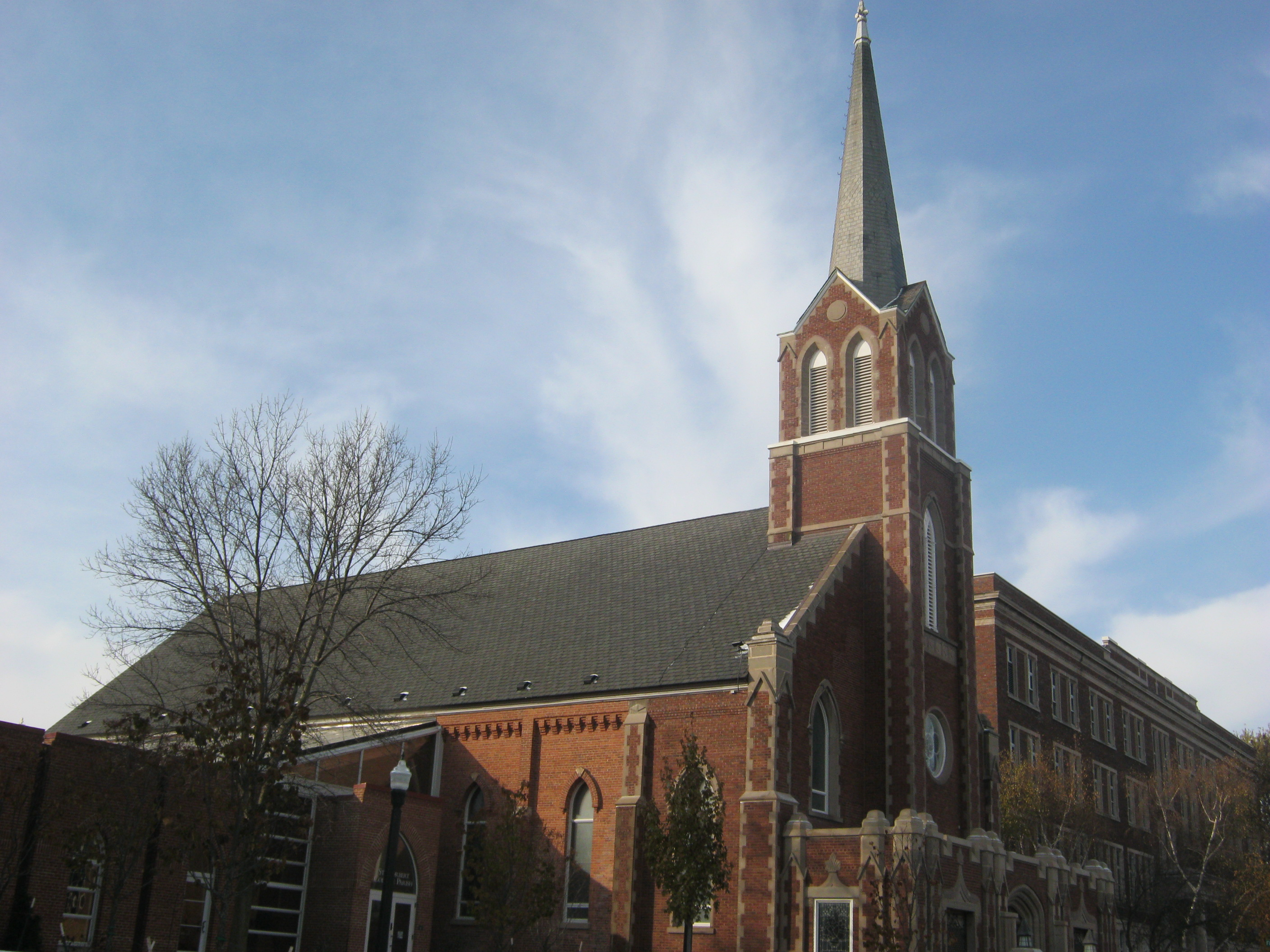 St. Joseph Church at St. Norbert College in De Pere, Wisconsin. The National Shrine of St. Joseph was moved into the church in 2015.